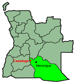 Menongue and Cassinga in Angola